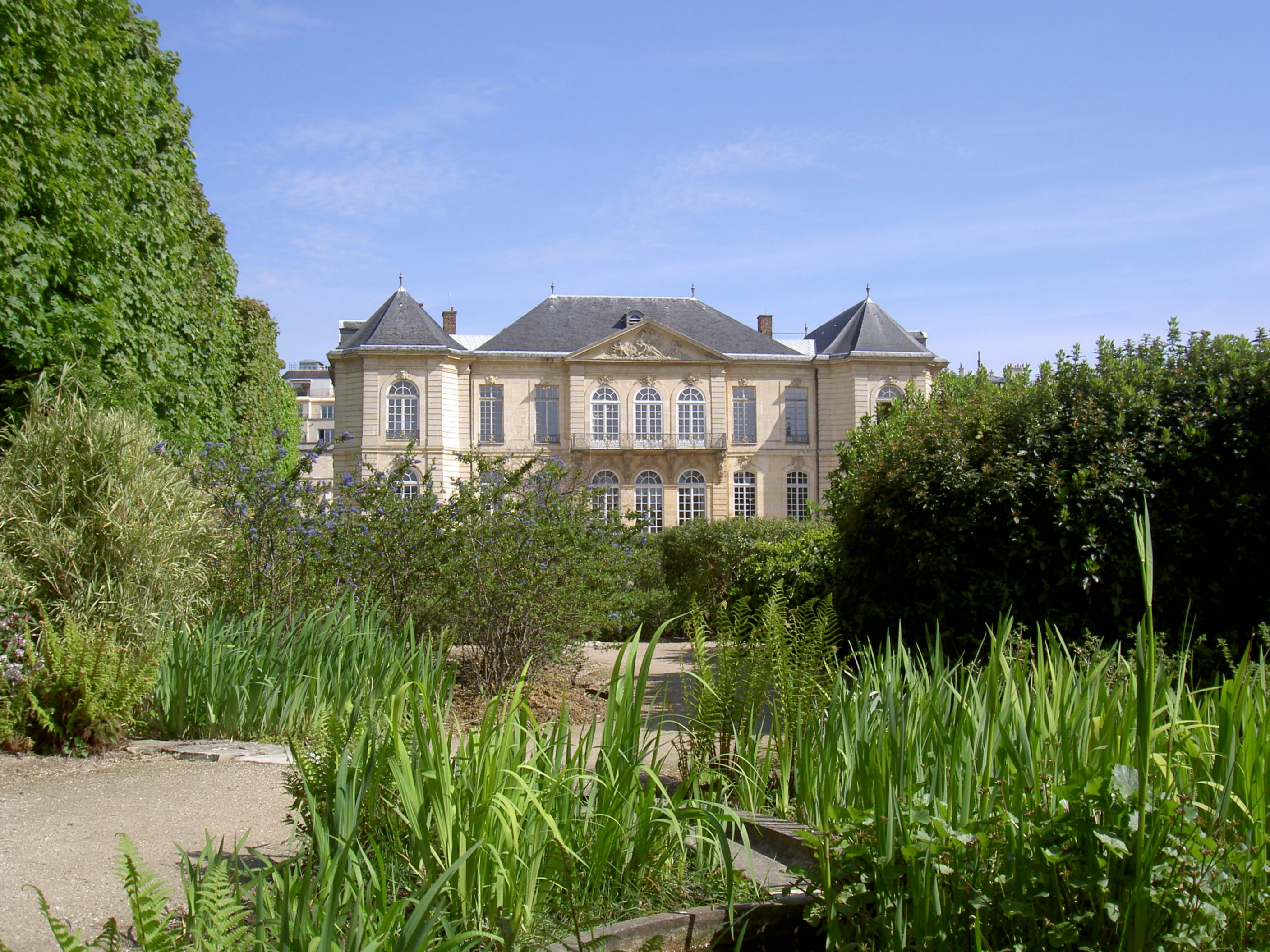 Hôtel Biron, housing Musée Auguste Rodin, in Paris.